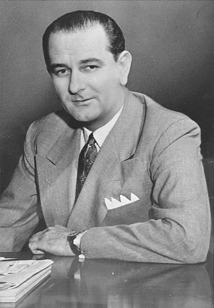 Photo portrait of Lyndon B. Johnson as U.S. Senator for Texas and Majority Leader